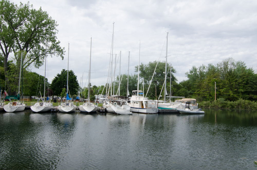 The Royal Canadian Yacht Club on the Toronto Islands.